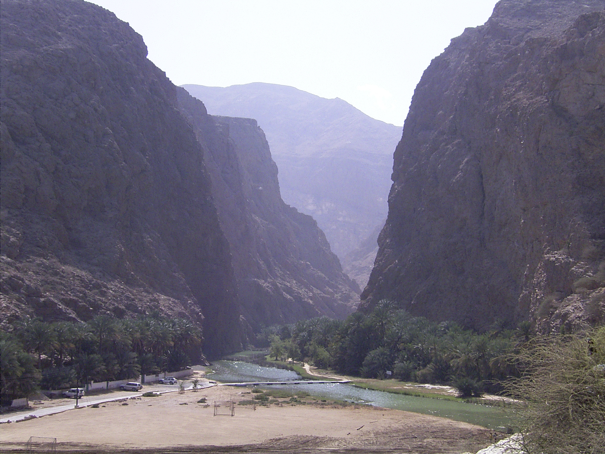 Wadi Shab in Oman